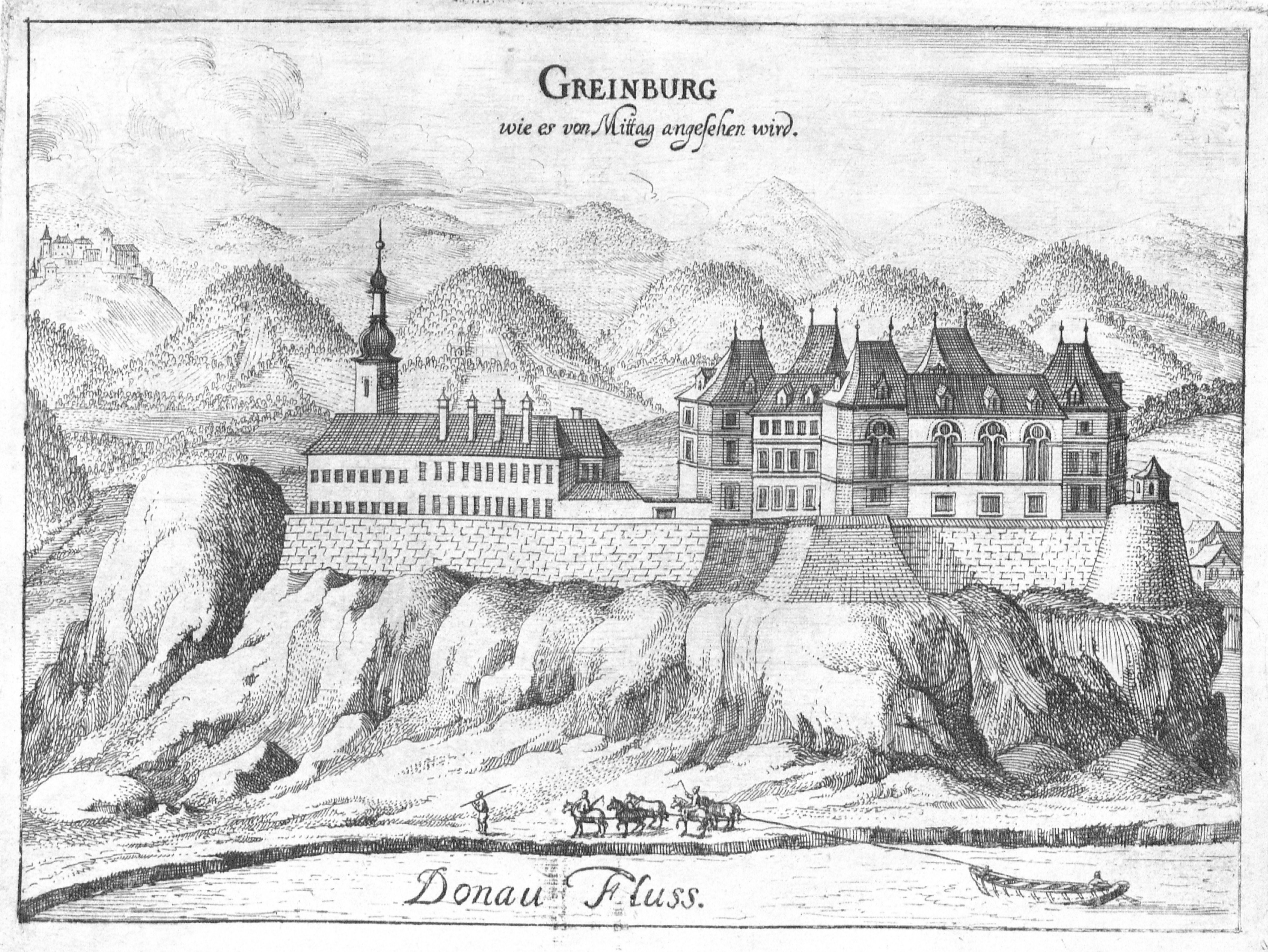 Engraving, view of Greinburg castle, Upper Austria, drawing from M. Vischer 1674